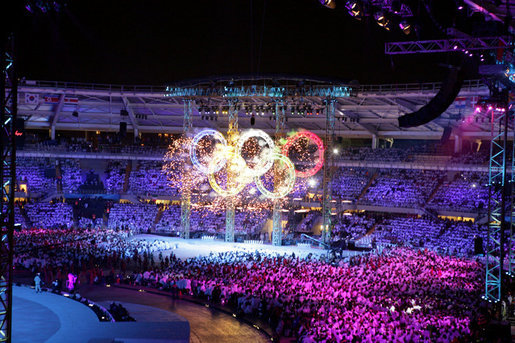 Fireworks in the design of the Olympic rings is a highlight moment during the 2006 Winter Olympics opening ceremony in Turin, Italy, Friday, Feb. 10, 2006.